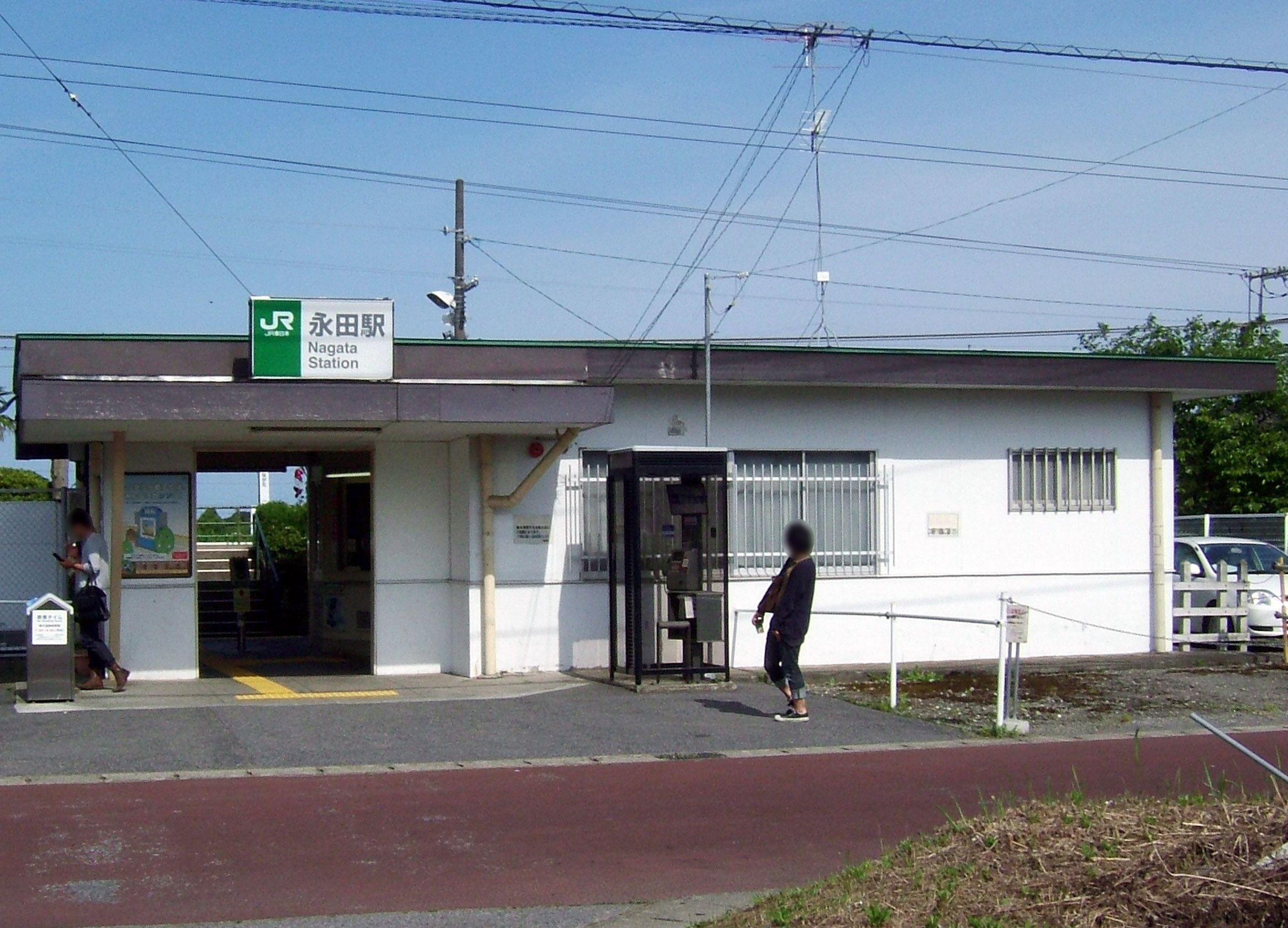 Nagata Station building (East Japan Railway Sotobō Line)